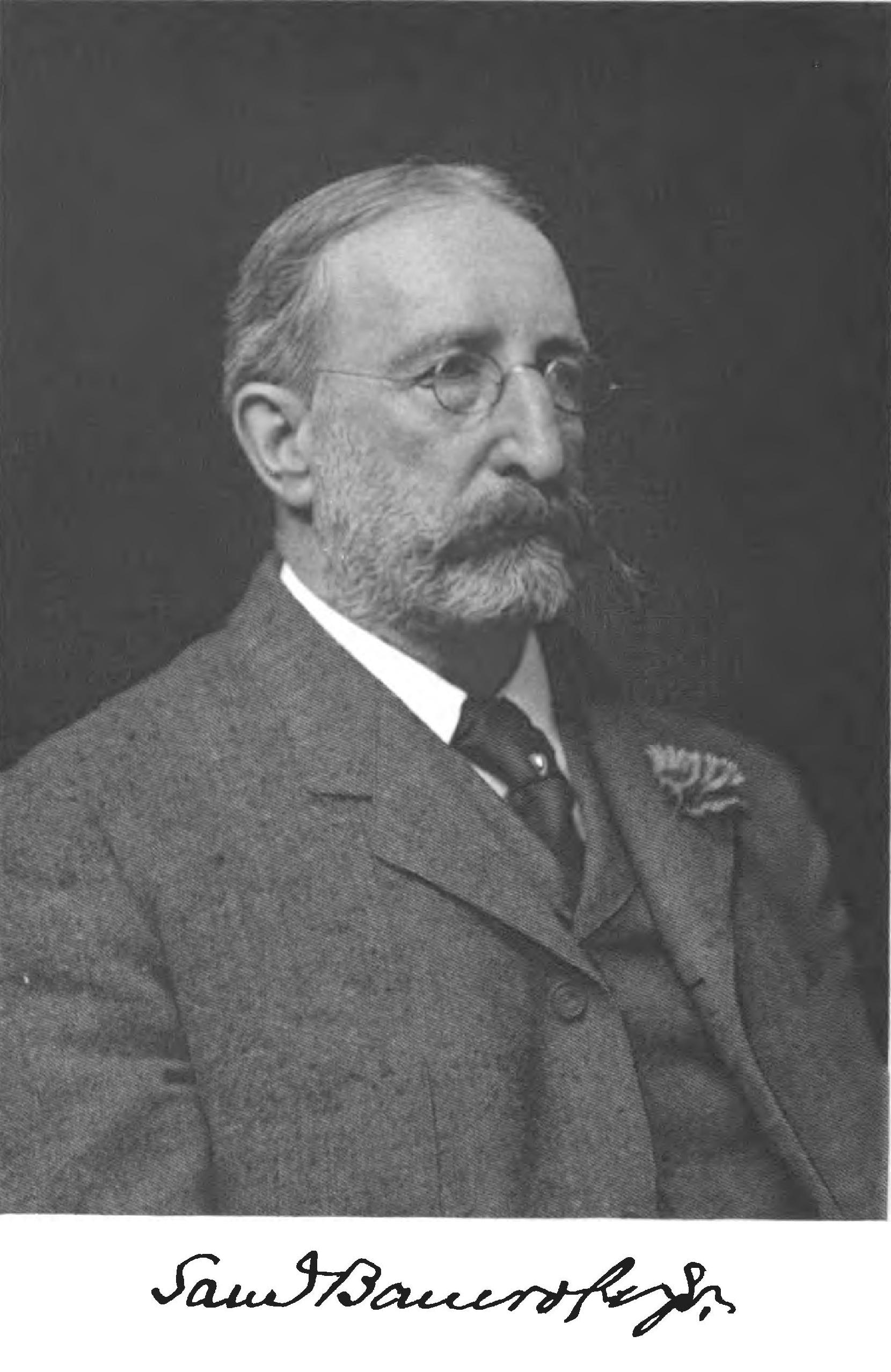 Samuel Bancroft Jr. was an American Industrialist and journalist. His father founded Bancroft Mills.